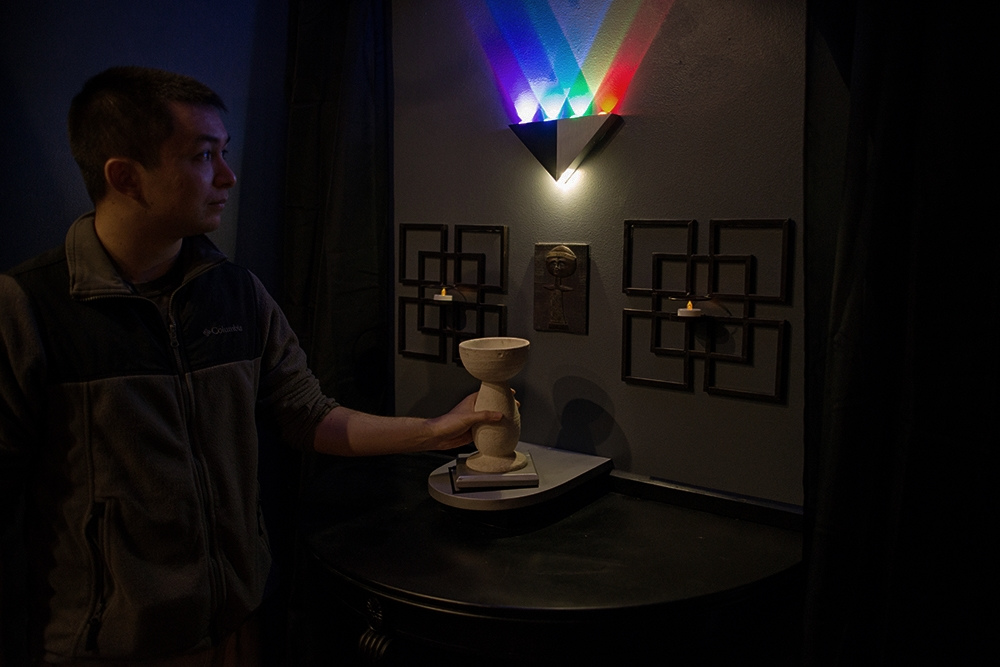 A man solving (or testing) a puzzle at the Conundrum Escape Room.